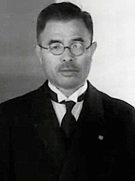 Kazuo Aoki (1889–1982)